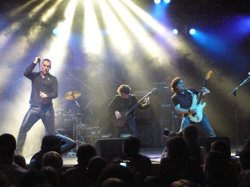 The French power metal band Heavenly playing live at the Elysée Montmartre (Paris) on 10 November 2008